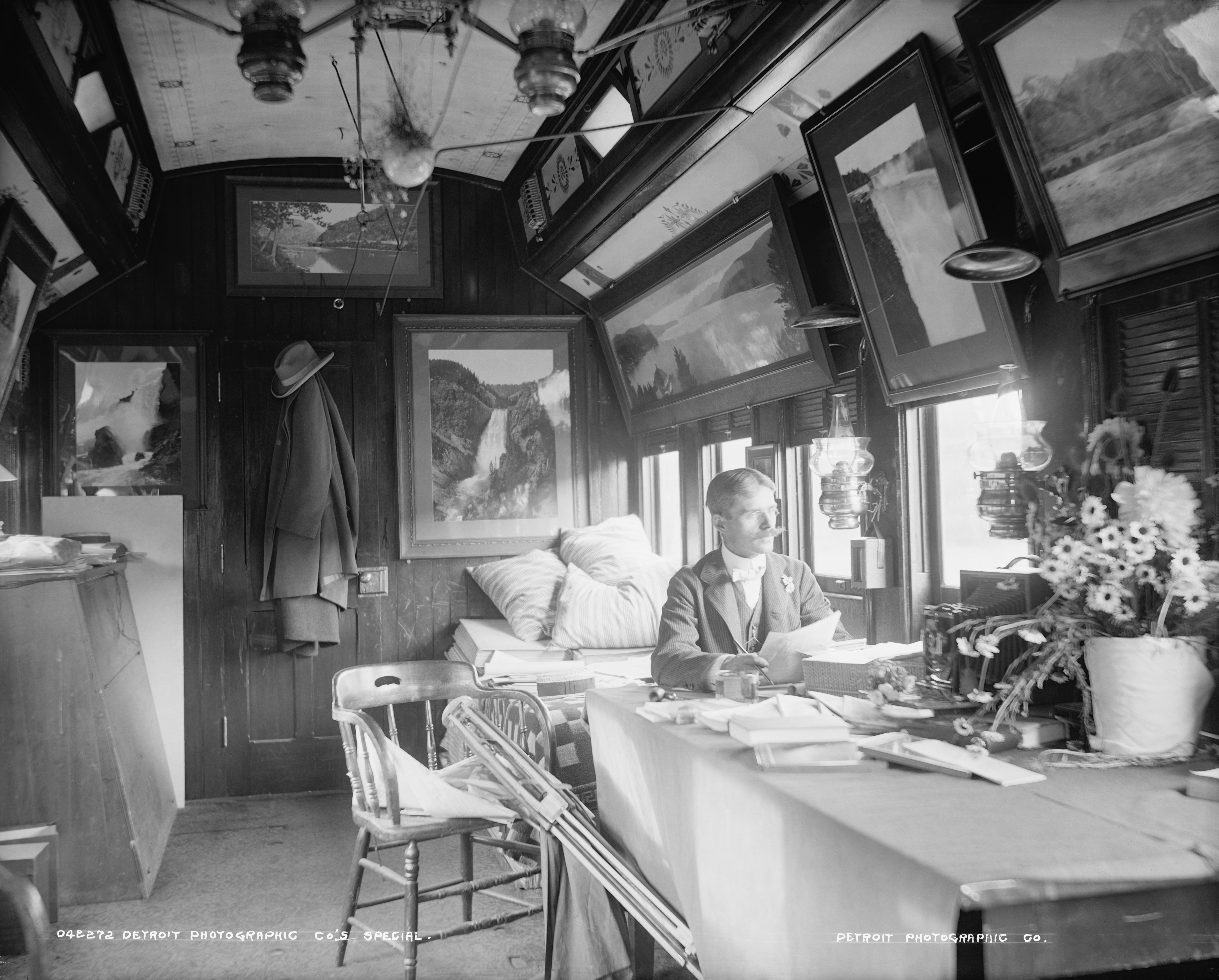 William Henry Jackson seated at table. Probably in Delaware, Lackawanna and Western Railroad car.